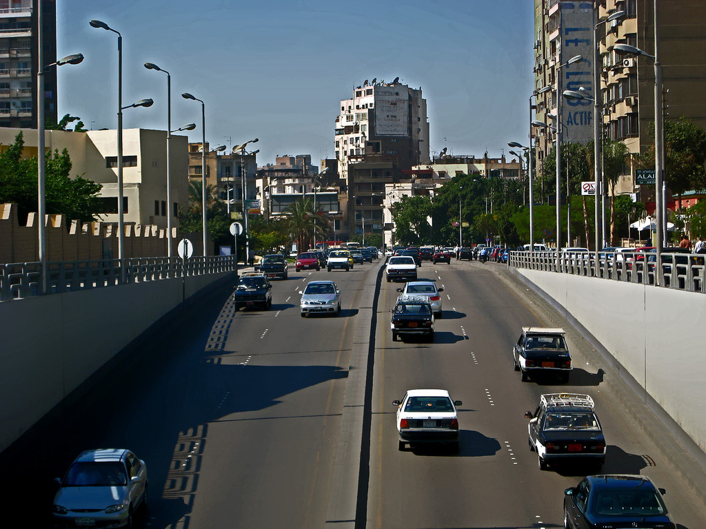 That tunnel reduced the traffic jam in that place..... Well done!!